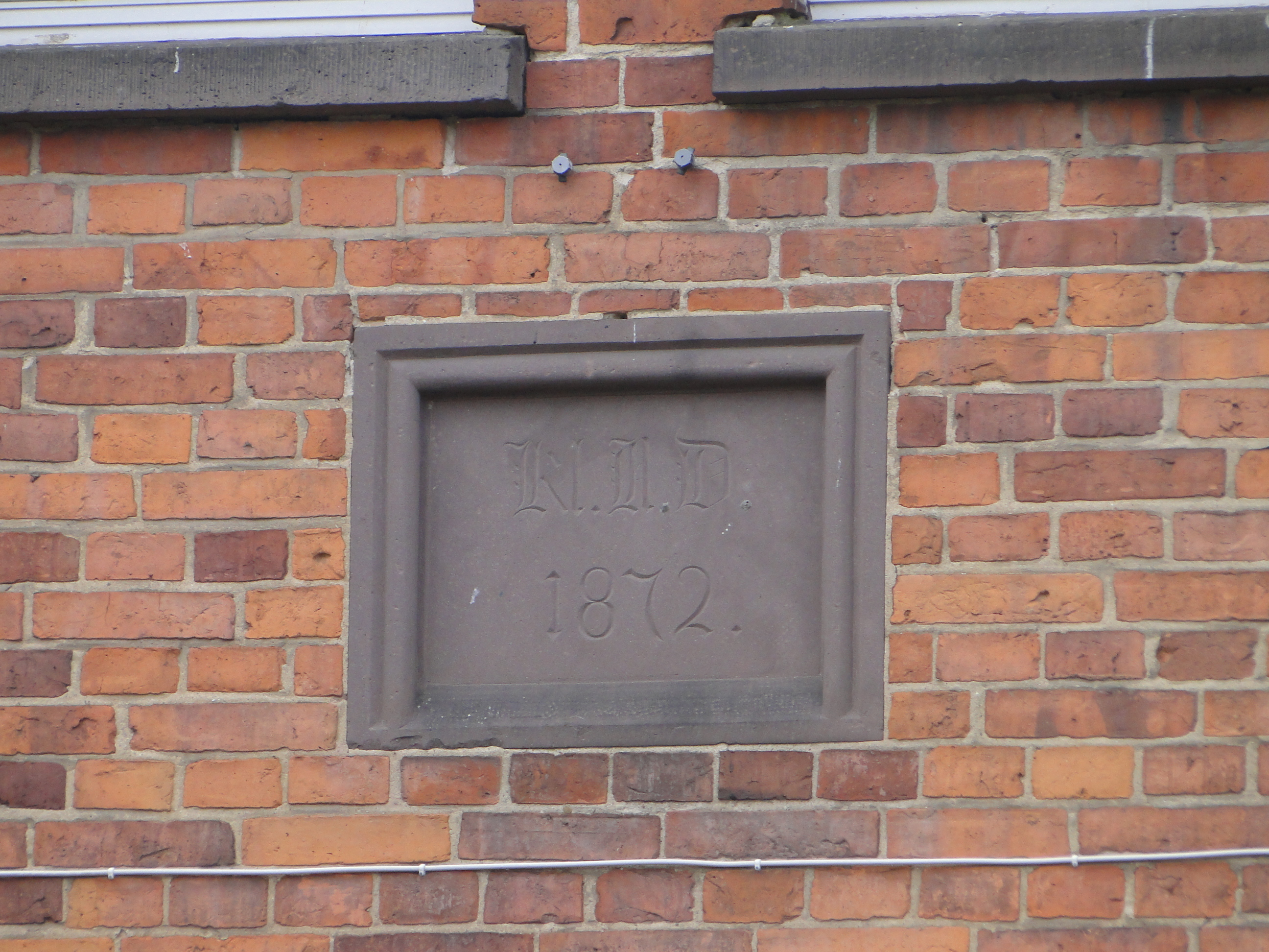 Former forest building with inscription of Klosteramt Dobbertin 1872, in Alt Schwinz, district Parchim, Mecklenburg-Vorpommern, Germany